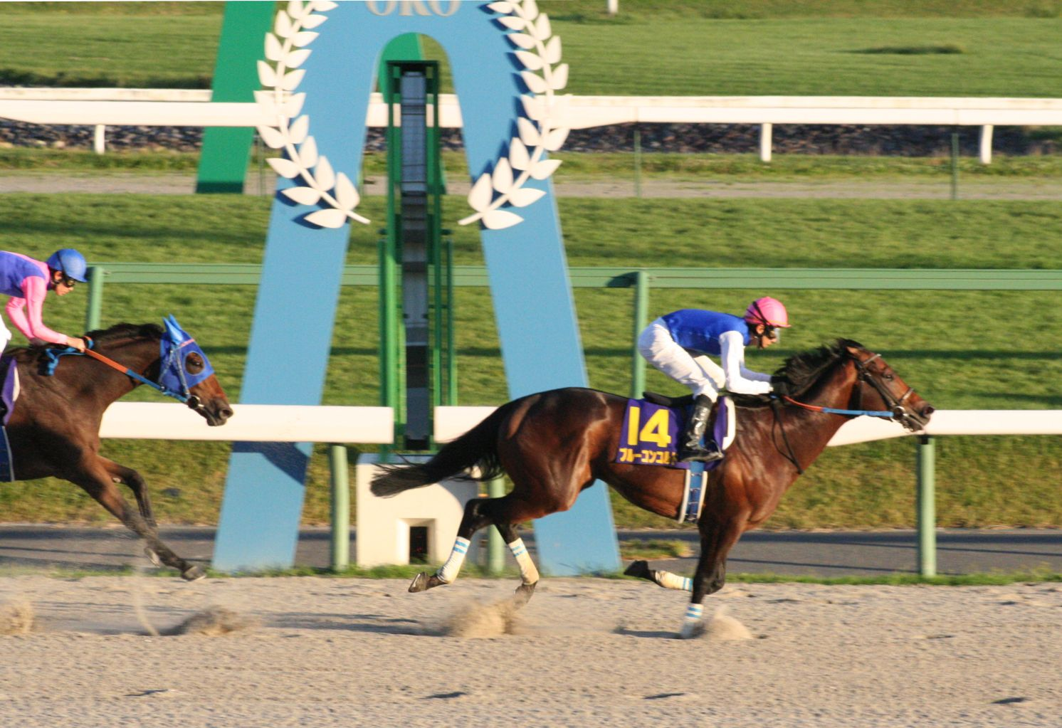 Blue Concord(Horse, Morioka Racecourse)